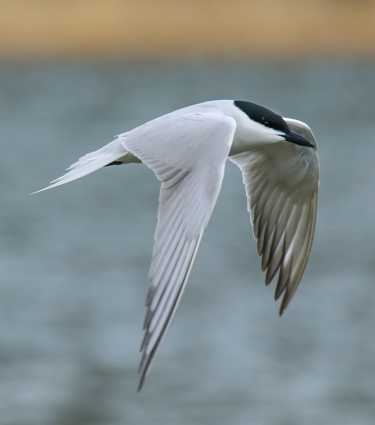 Gull-billed Tern (Gelochelidon nilotica) captured at Borit, Gojal, Gilgit-Baltistan, Pakistan with Canon EOS 7D Mark II